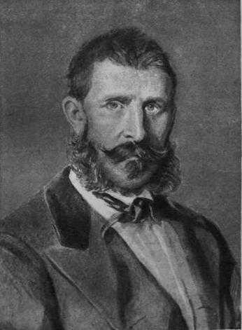 Portrait of Dénes Andrássy